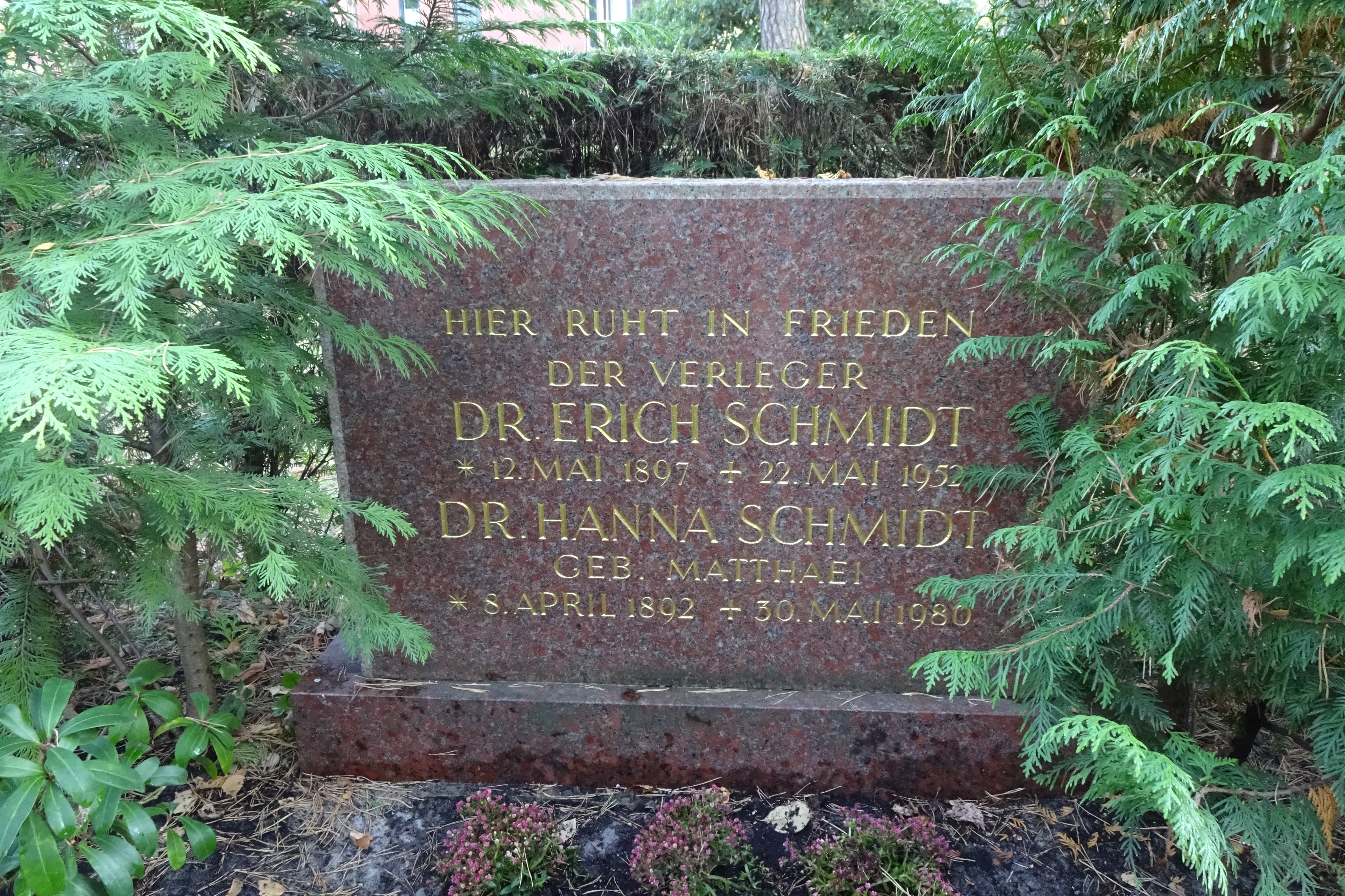 Grave of Geran publisher Erich Schmidt in Friedhof Nikolassee in Berlin-Nikolassee.